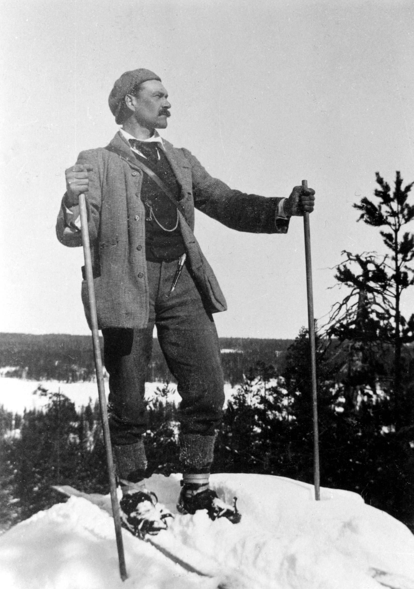 Akseli Gallen-Kallela, Finnish artist